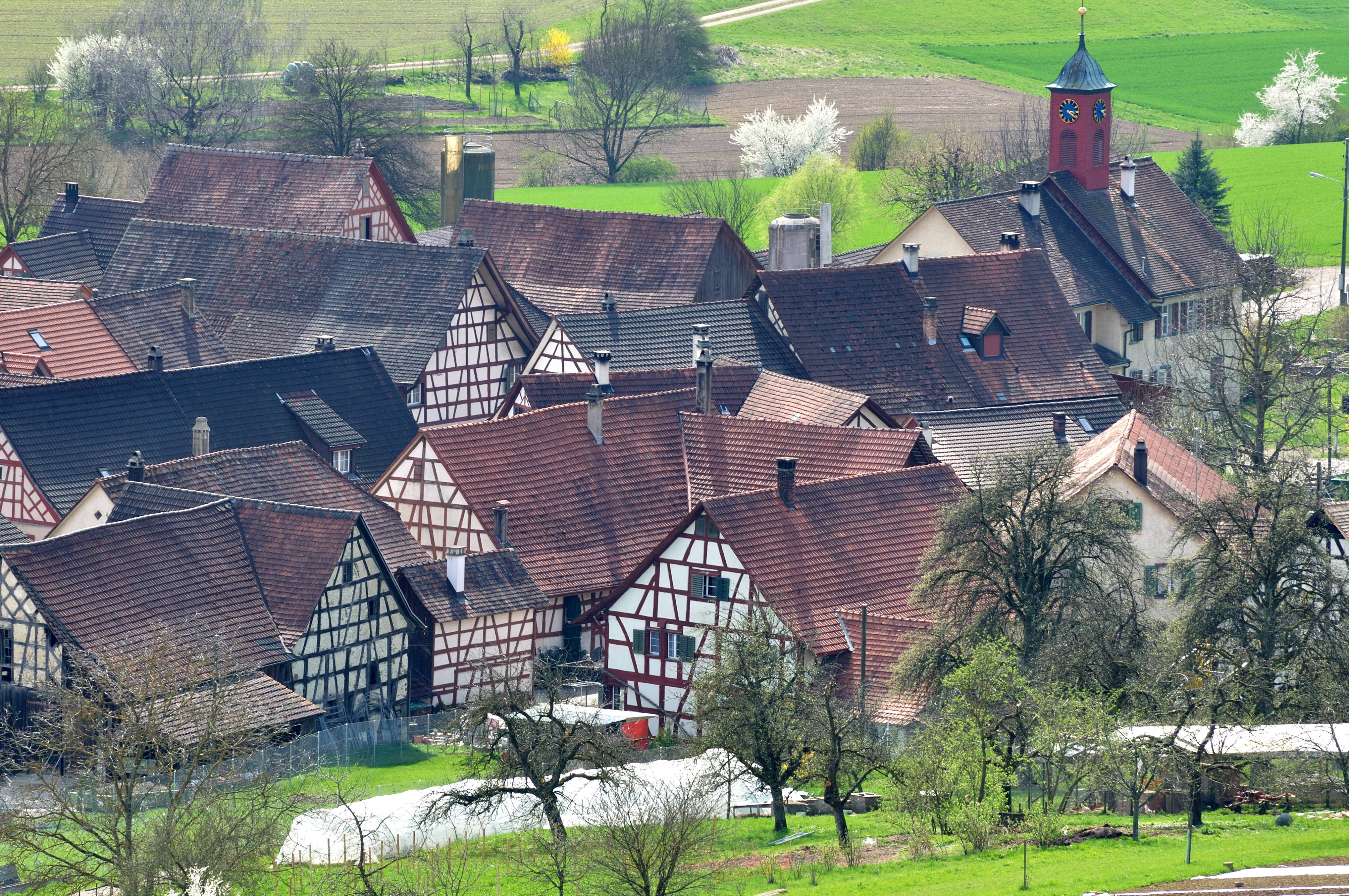 Switzerland, Canton of Zürich, views from the lookout tower in Wildensbuch